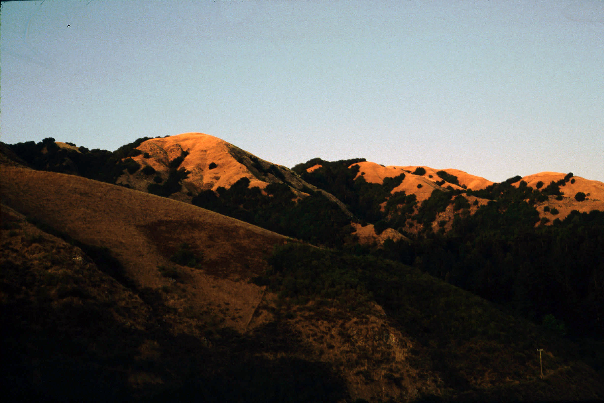 The Santa Lucia Mountains in Big Sur, seen from 'Nepenthe' restaurant — California.